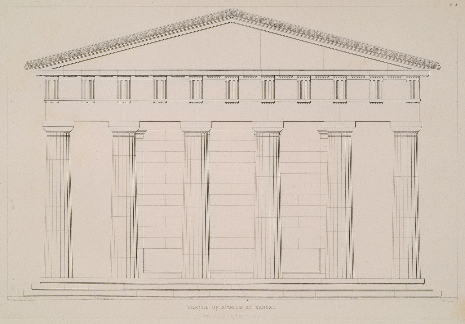 Temple of Apollo at Bassae - Cockerell Charles Robert Kinnard William Donaldsonthomas Leverton Jenkins William Railton William - 1830